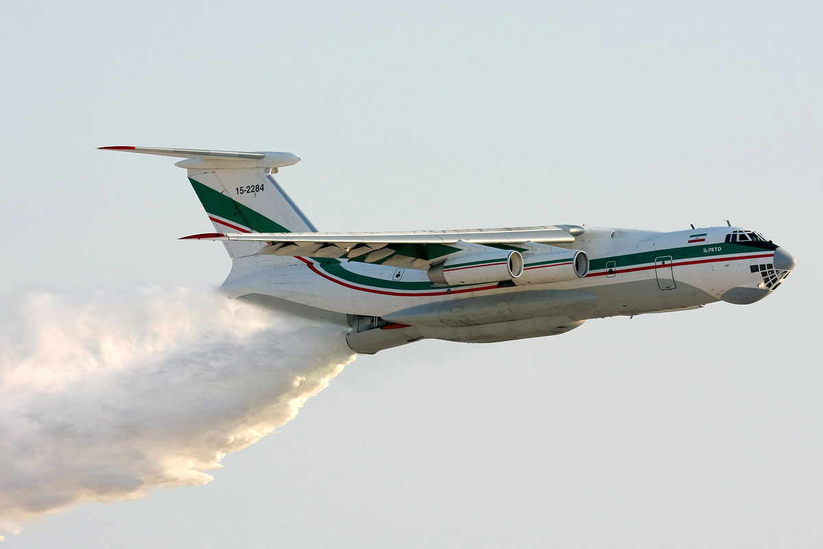 The IL-76D is first Army of the Guardians of the Islamic Revolution waterbomber exhibited in 2012 Iran Kish Air Show.